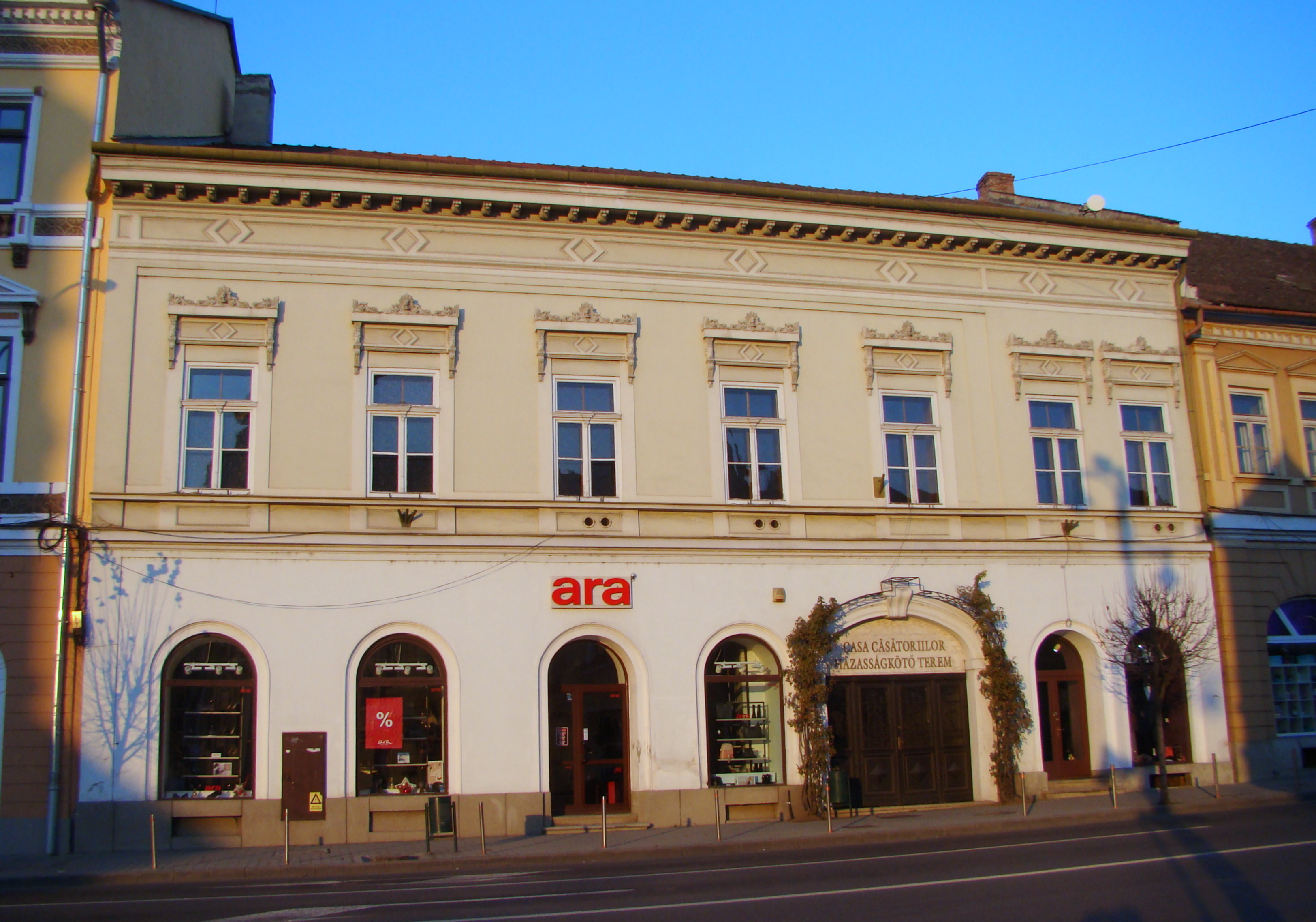 Kárnász house in Târgu Mureș, Piața Petöfi Sándor 2